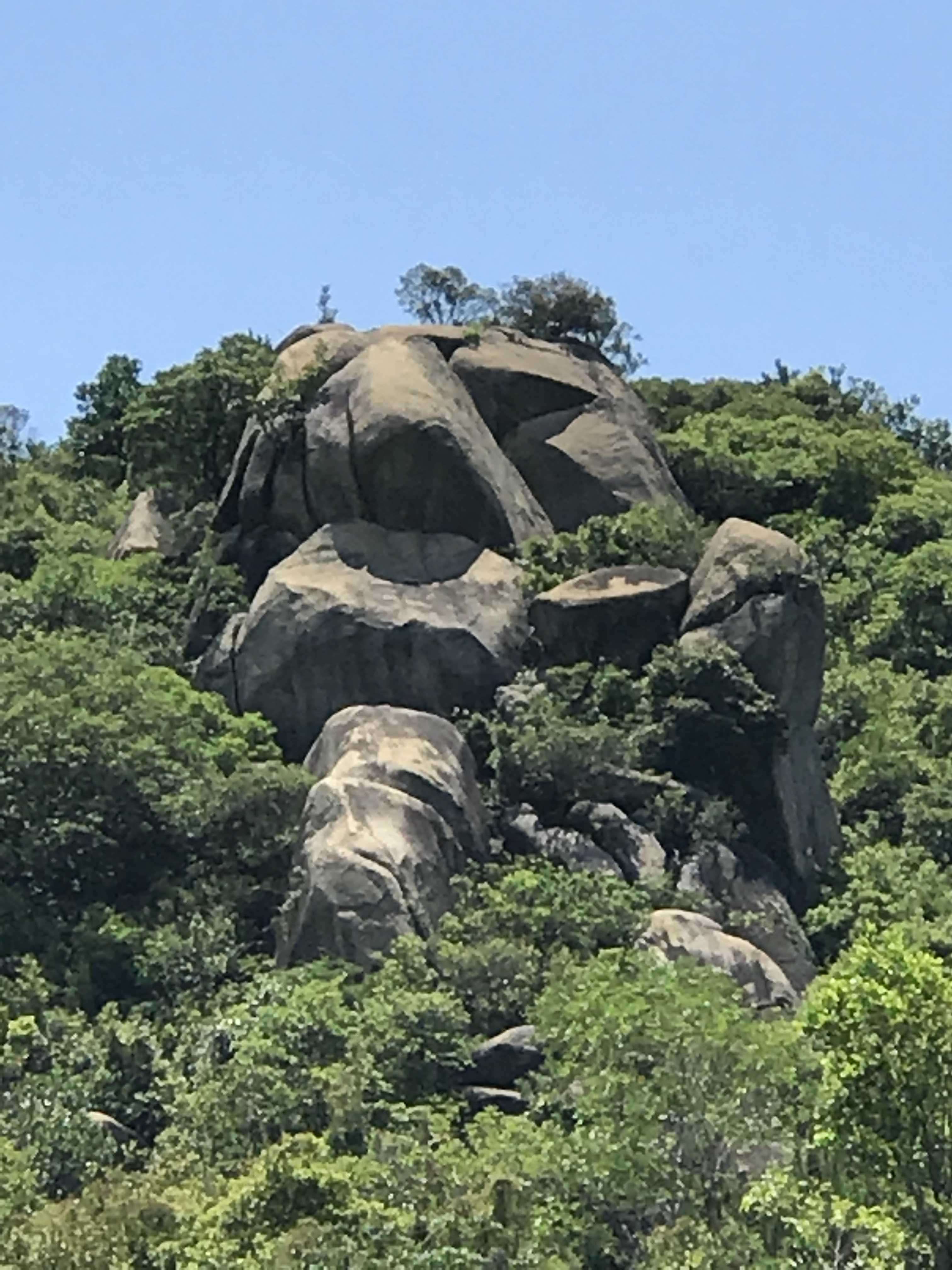 Tuen Mun Moai is located at MacLehose Trail, Tuen Mun, New Territories, Hong Kong. When native people hiking out there, it is quite noticeable.